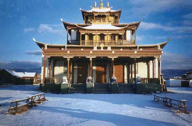 Ivolga monastery in Russia.